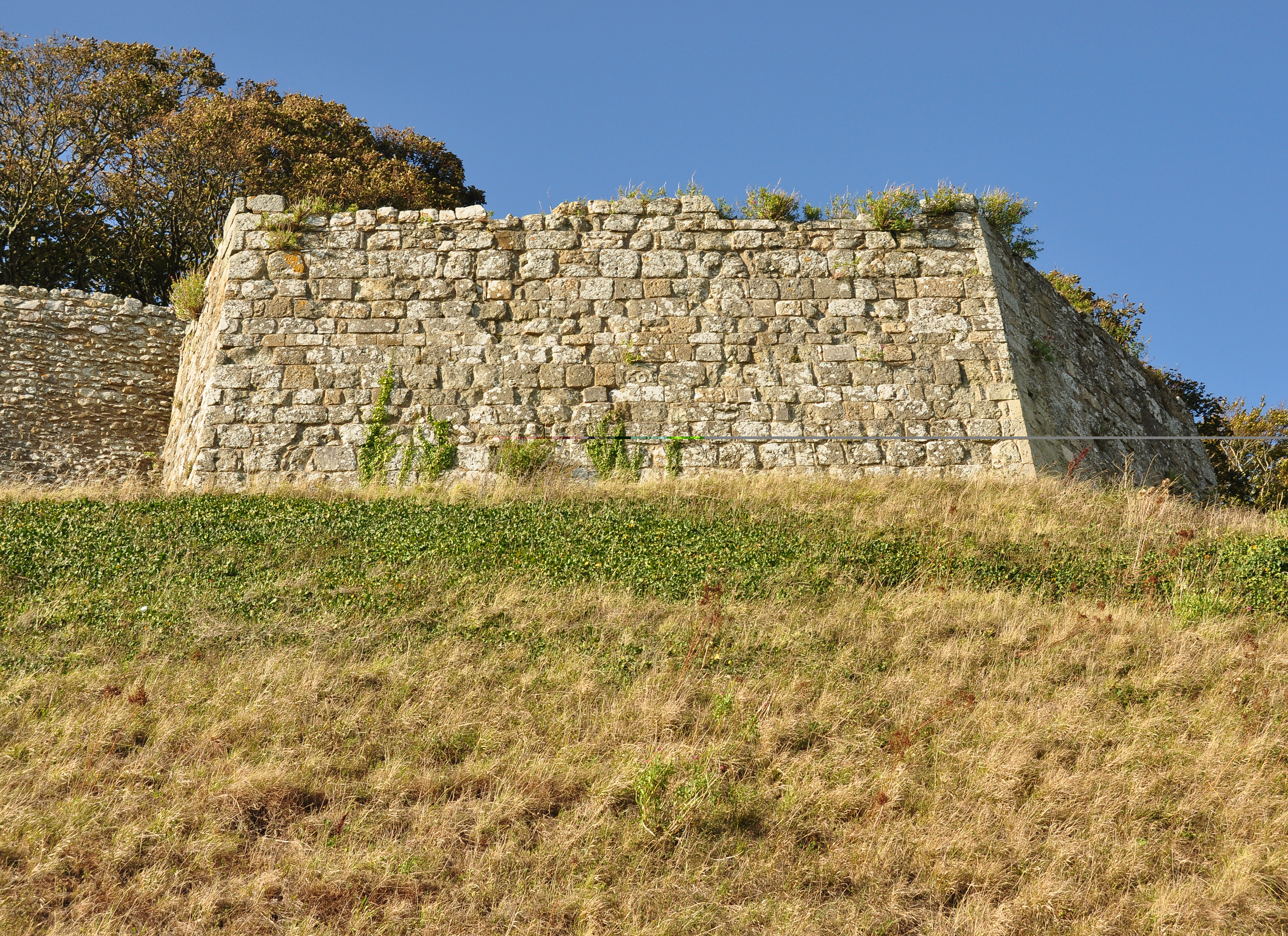 The outer ramparts of Carisbrooke Castle on the Isle of Wight.